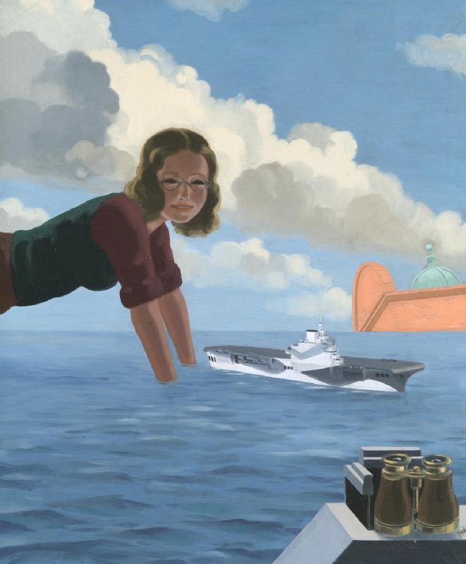 A young woman leans into the picture from the left with her hands submerged in a tank of water, on the roof of a building with a blue sky, clouds and the green roof of another building in the background. A model of an aircraft carrier floats in the tank.